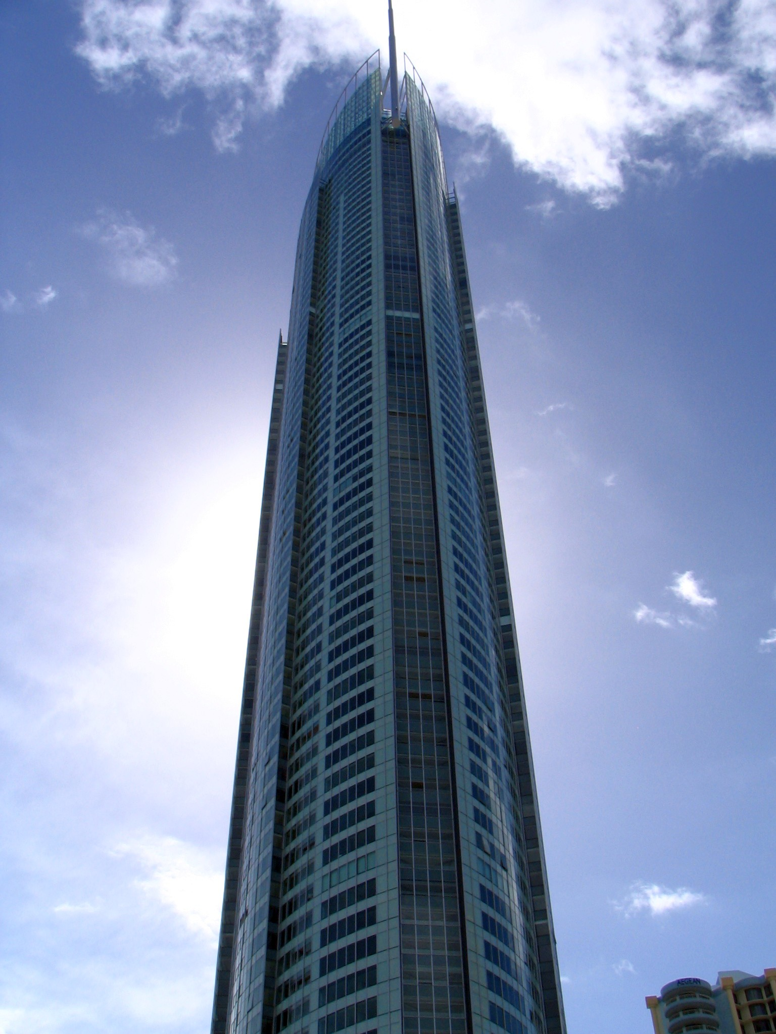 Q1 (building) on the Gold Coast, Australia; looking towards the northwest from a neighbouring street. Own photo